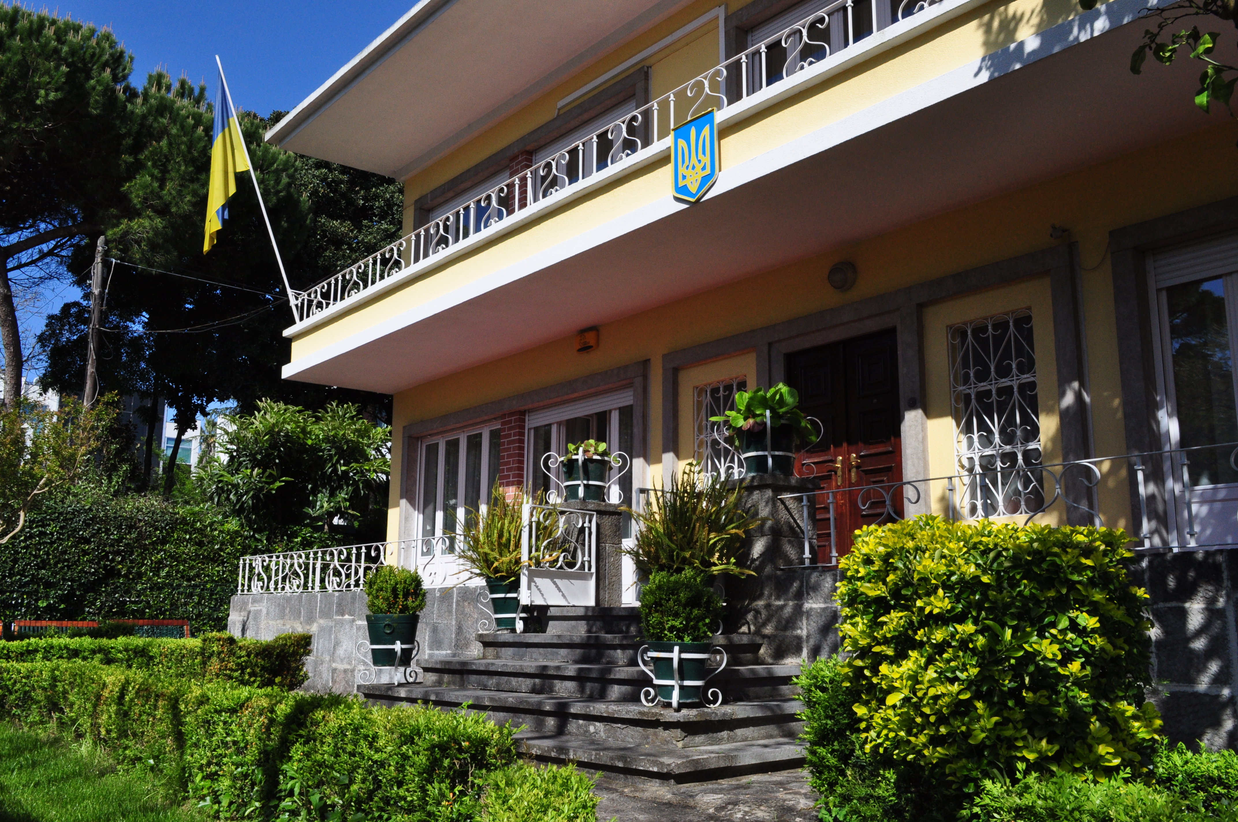 Embaixada-da-Ucrânia-em-Portugal